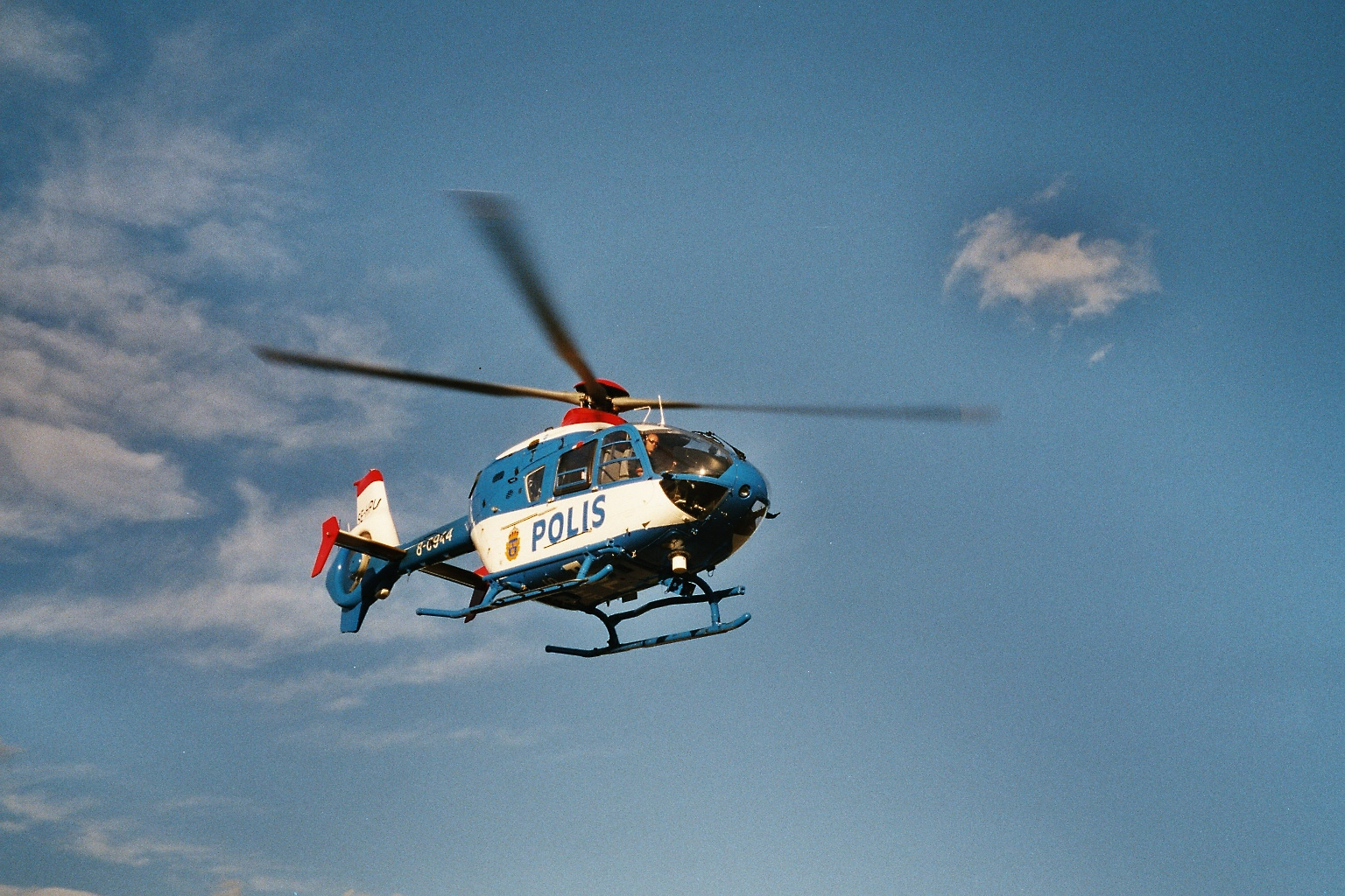 Police helicopter in Sweden Reg:SE-HPU